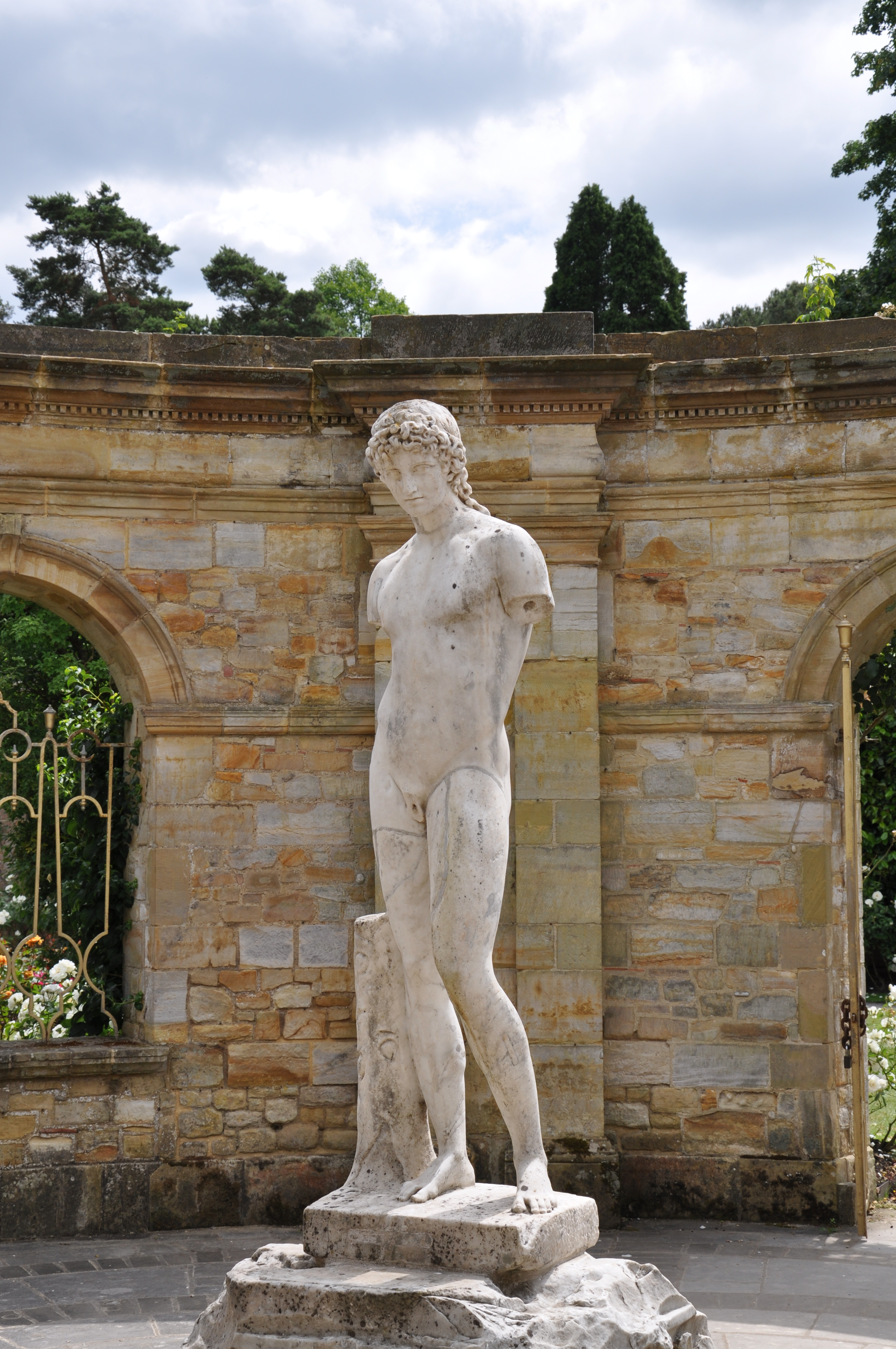 Inside the Italian Gardens of Hever Castle